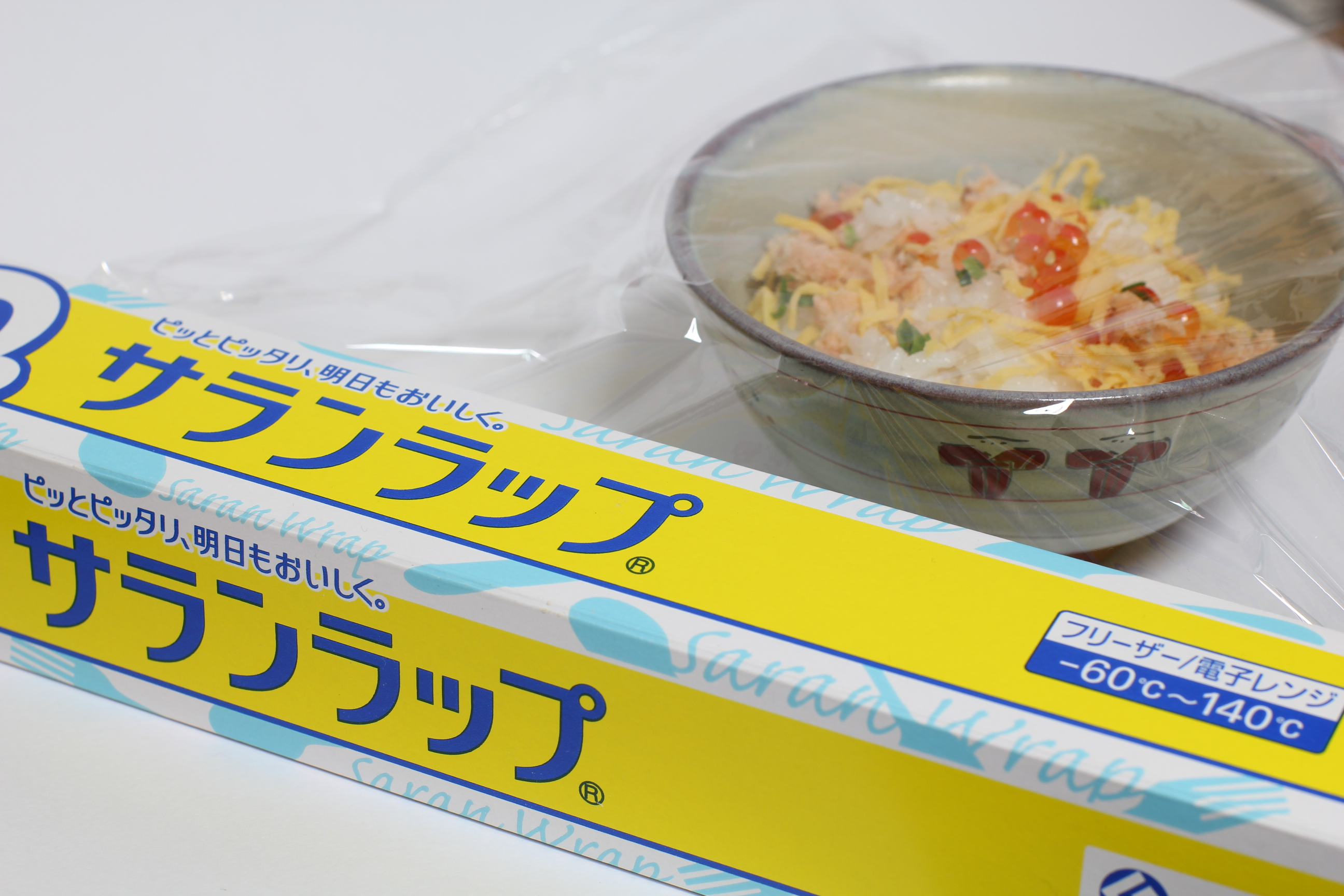 Saran Wrap which a plastic wrap for foods manufacutured by Asahi Kasei Corporation